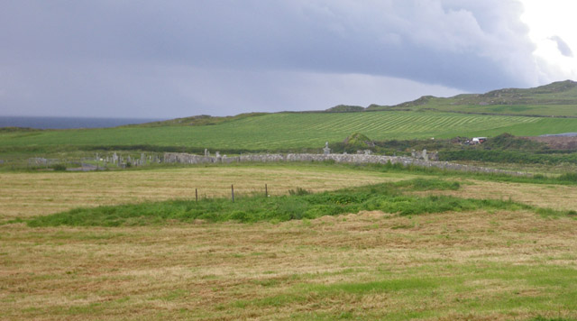 MacDonald Cemetery at Nerabus, near to Nerabus, Argyll And Bute, Great Britain. This graveyard is quite near the shores of Loch Indaal.